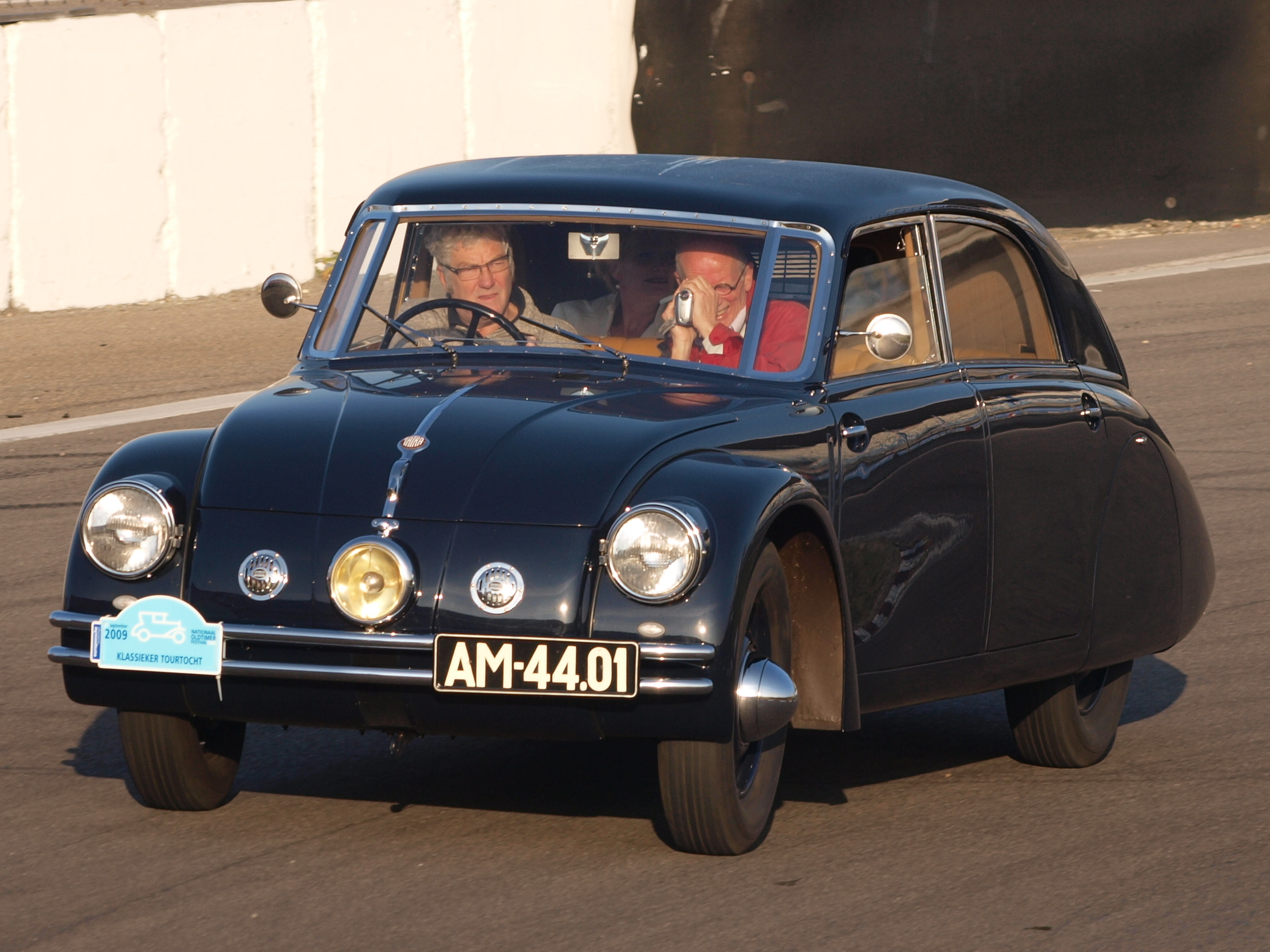 Photographed at the Nationaal Oldtimer Festival Zandvoort 2009, The Netherlands. OLYMPUS DIGITAL CAMERA